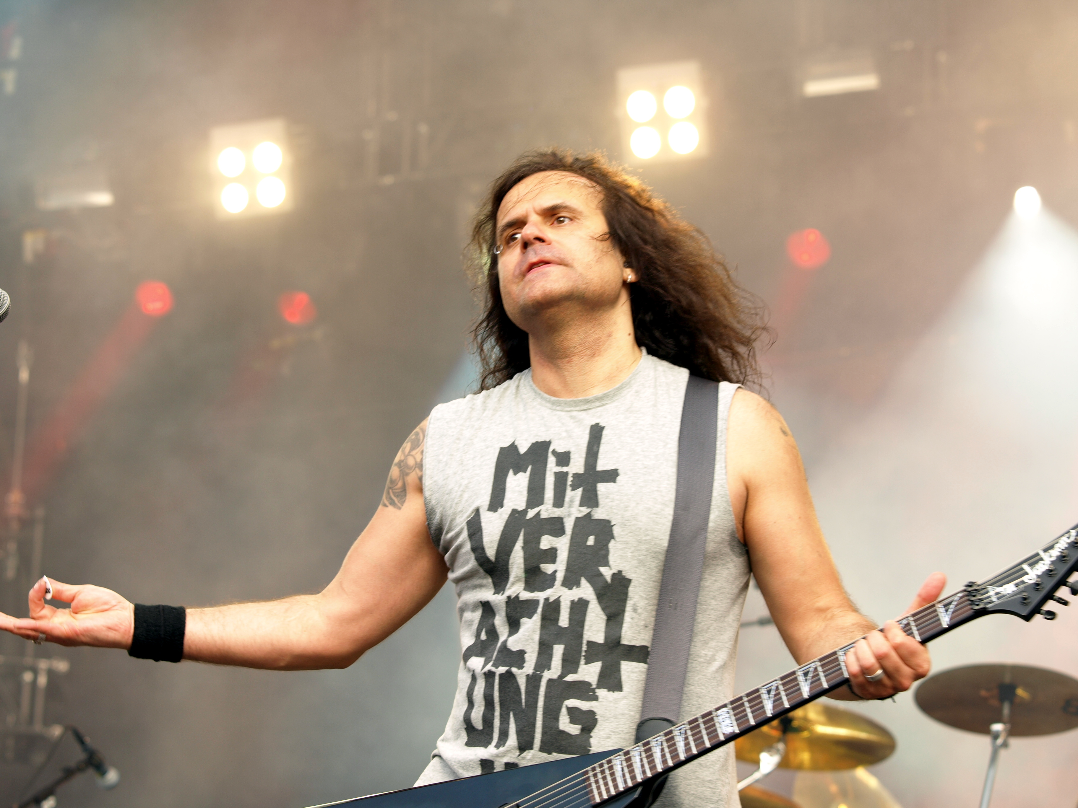 German thrash metal band Kreator live at Tuska Open Air 2013